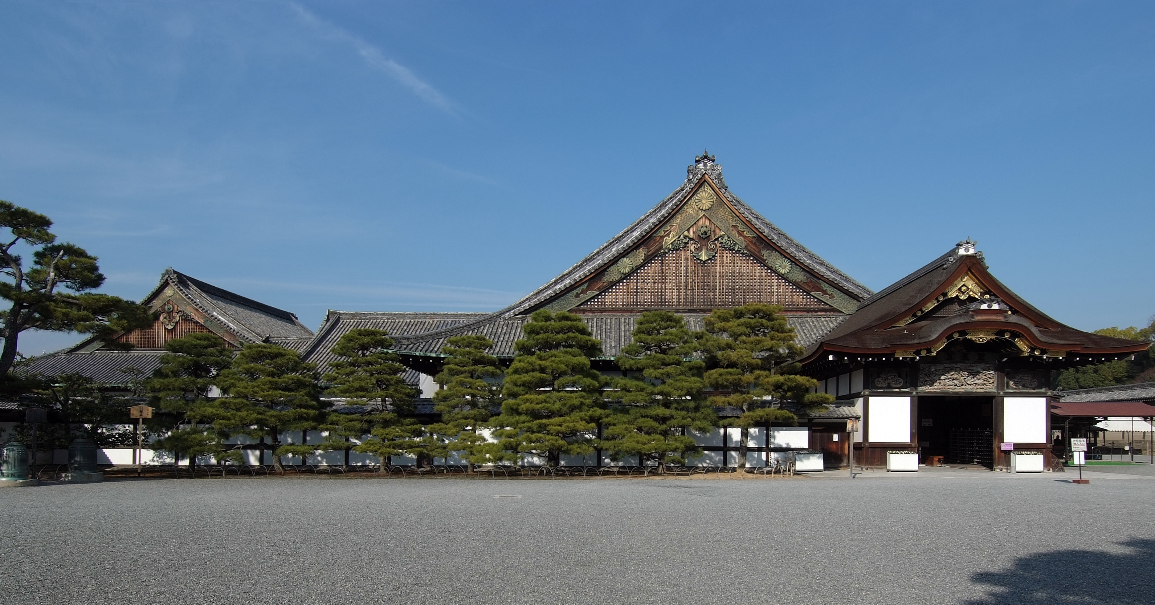 Nijo-jo Ninomaru-goten, Chukyo-ku Kyoto Japan, 1626.